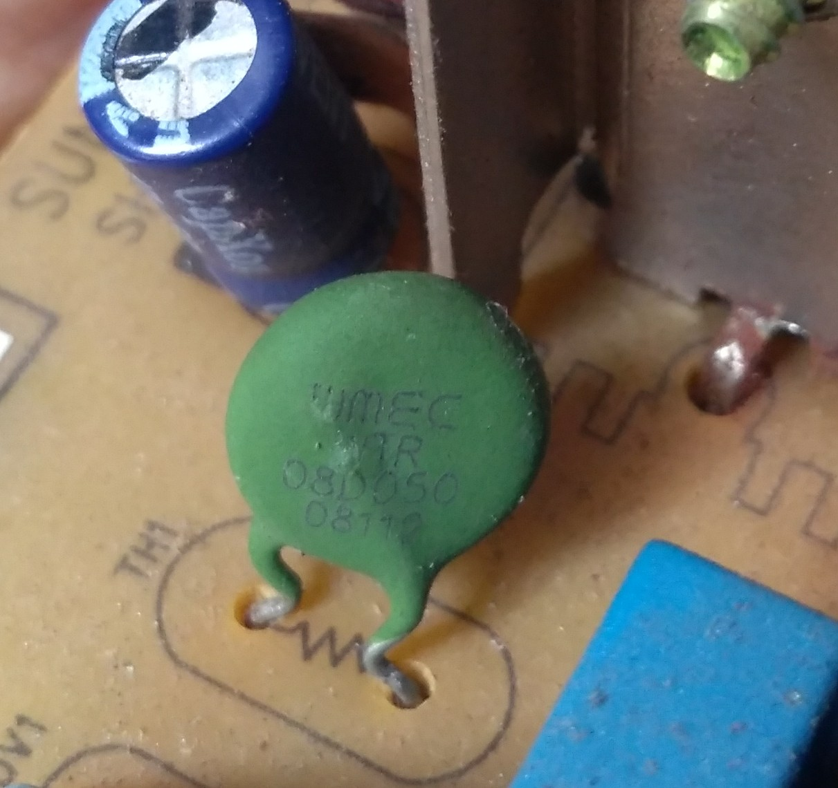 A NTC Thermistor, or a Negative Temperature Coefficient Thermistor ( green disc shaped component) in a power supply circuit board. It works as a inrush-current limiter. Initially, it has a higher resistance, which prevents high currents from flowing at turn-on. But as it heats up, its resistance decreases allowing higher currents to flow during normal operation.